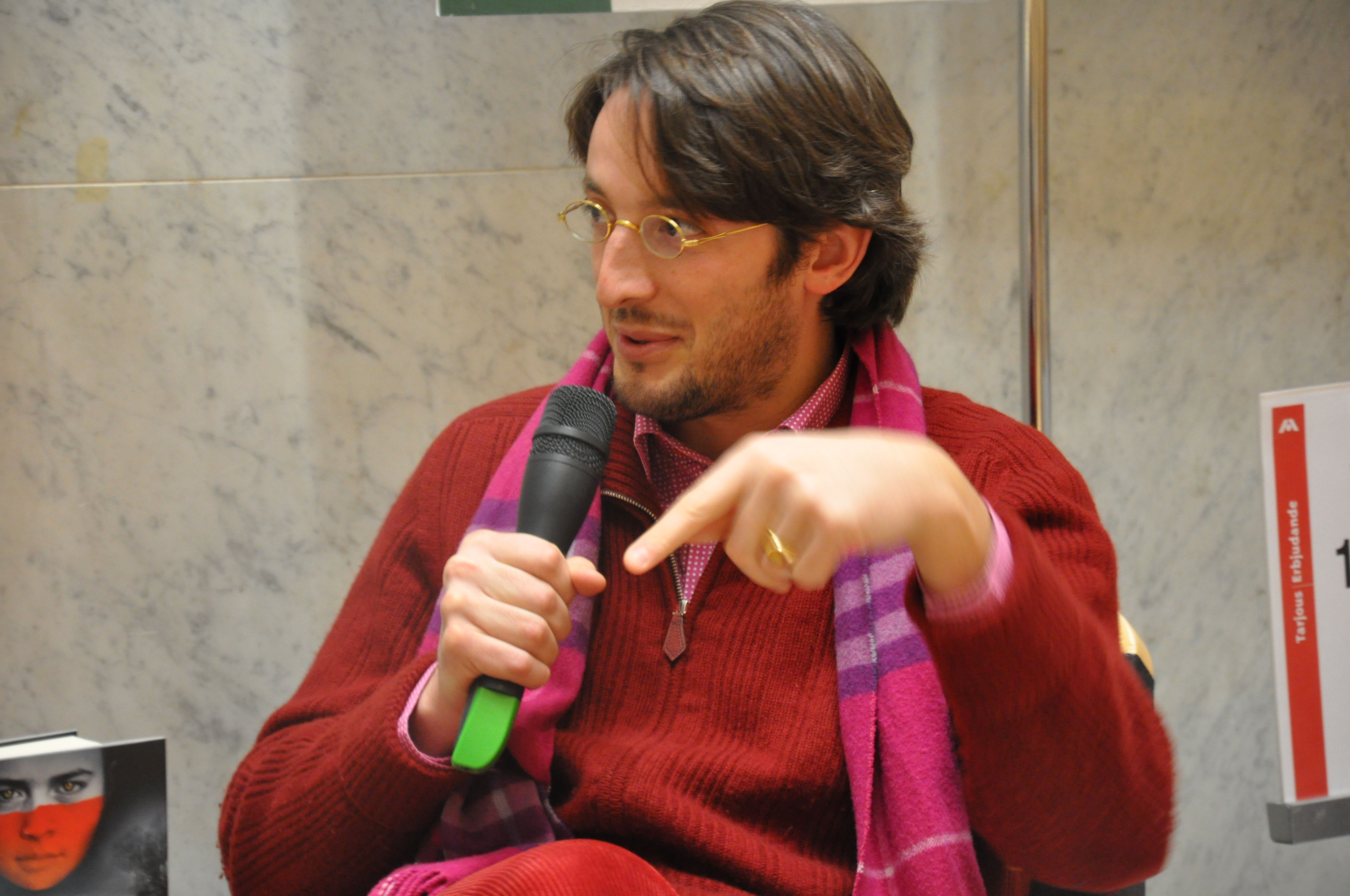 French journalist and writer Nicolas d'Estienne d'Orves (Neo) in the Academic Bookstore in Helsinki, Finland.